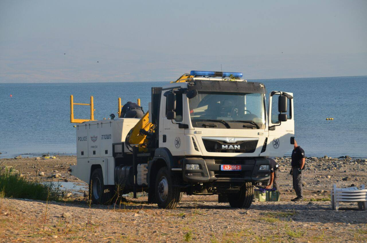 Israeli Police bomb disposal unit safely detonated old World War I artillery shells in the Sea of Galilee (Kinnereth). The bomb disposal operators carefully transported the shells into a safe place and detonated them without damage.